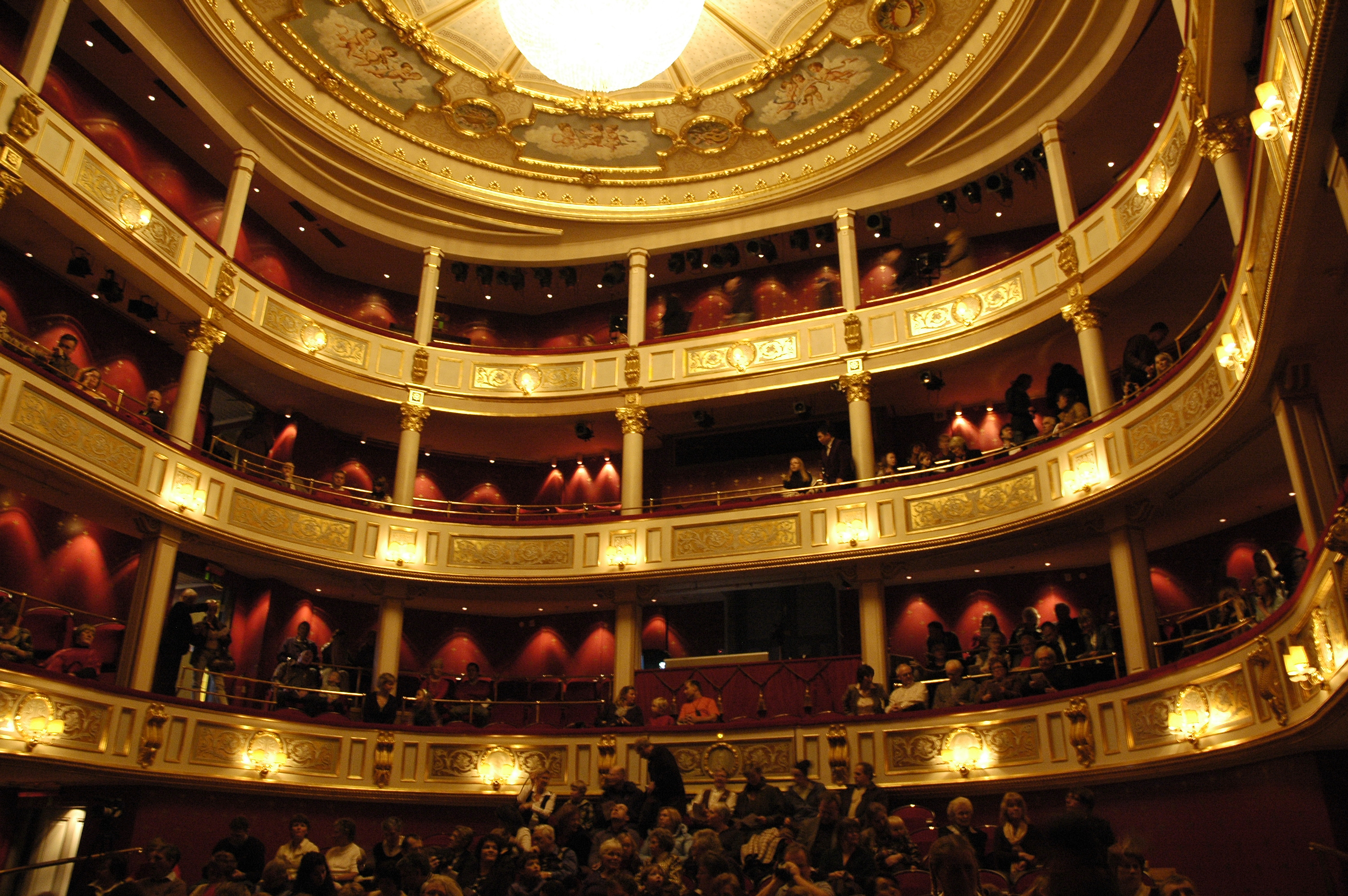 Interior of the theatre in Drammen, Norway